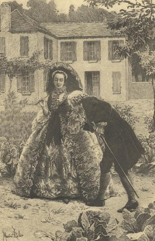 In The Garden of The Hermitage; Illustrations; The Confessions of J.J. Rousseau ; Aldus